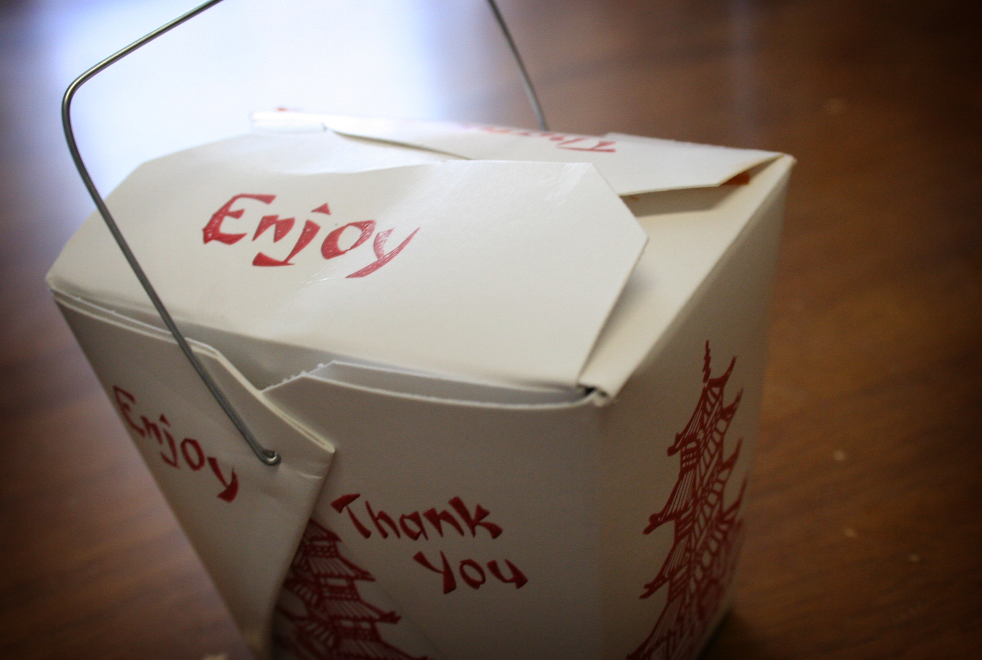 7/365 We went out for Chinese last night and stuffed ourselves. This little box is all that's left. This is picture concludes my first week doing Project 365. Most of my pictures seem to be of food so far.